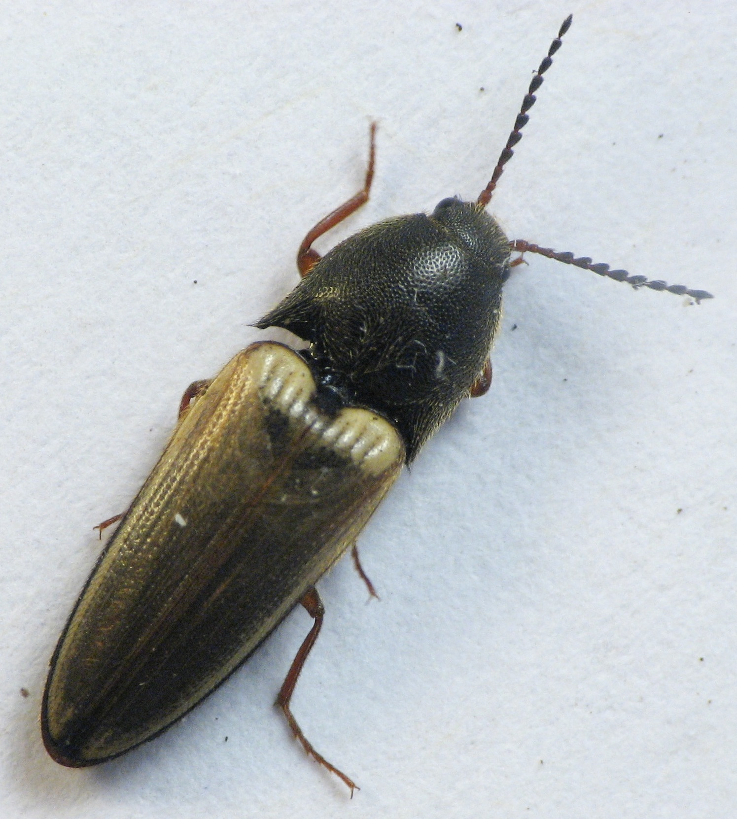 Click beetle, Ampedus nigricollis. Peace Valley Nature Center, Bucks County, Pennsylvania, USA.